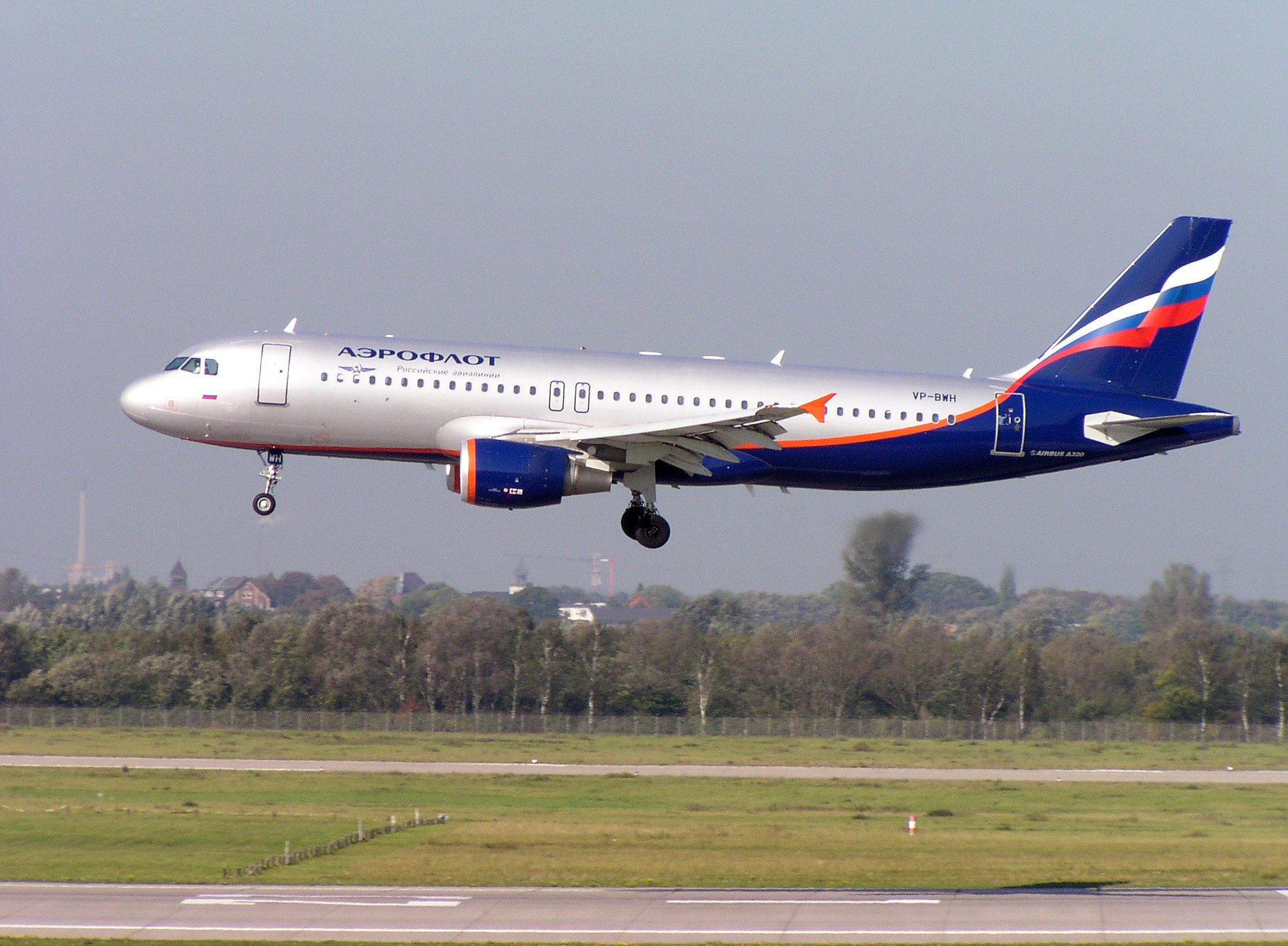 Aeroflot Airbus A320-200 landing in Düsseldorf, October 2005.